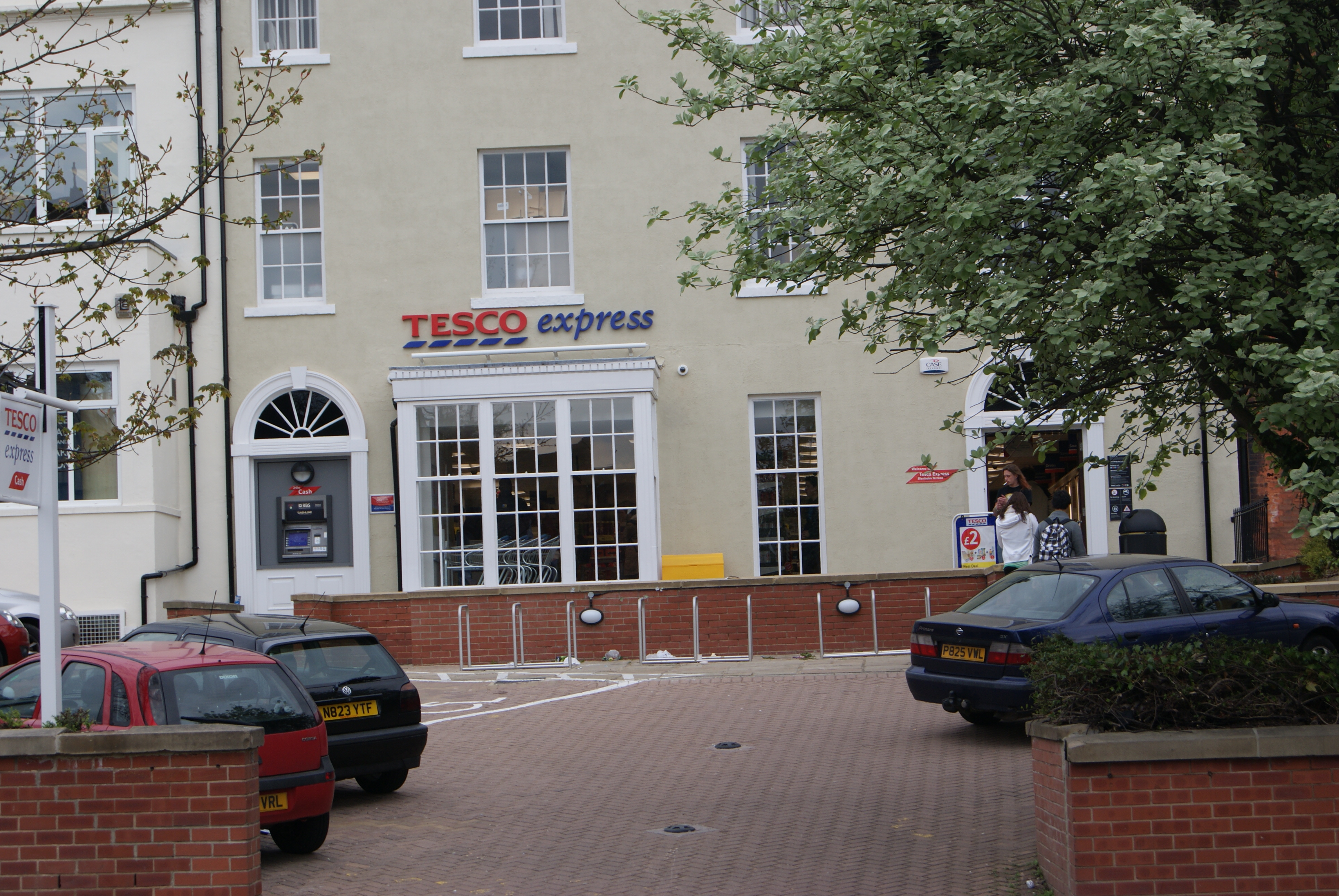 Tesco Express on Woodhouse Lane in Leeds, West Yorkshire. Taken on the afternoon of Tuesday the 4th of May 2010.